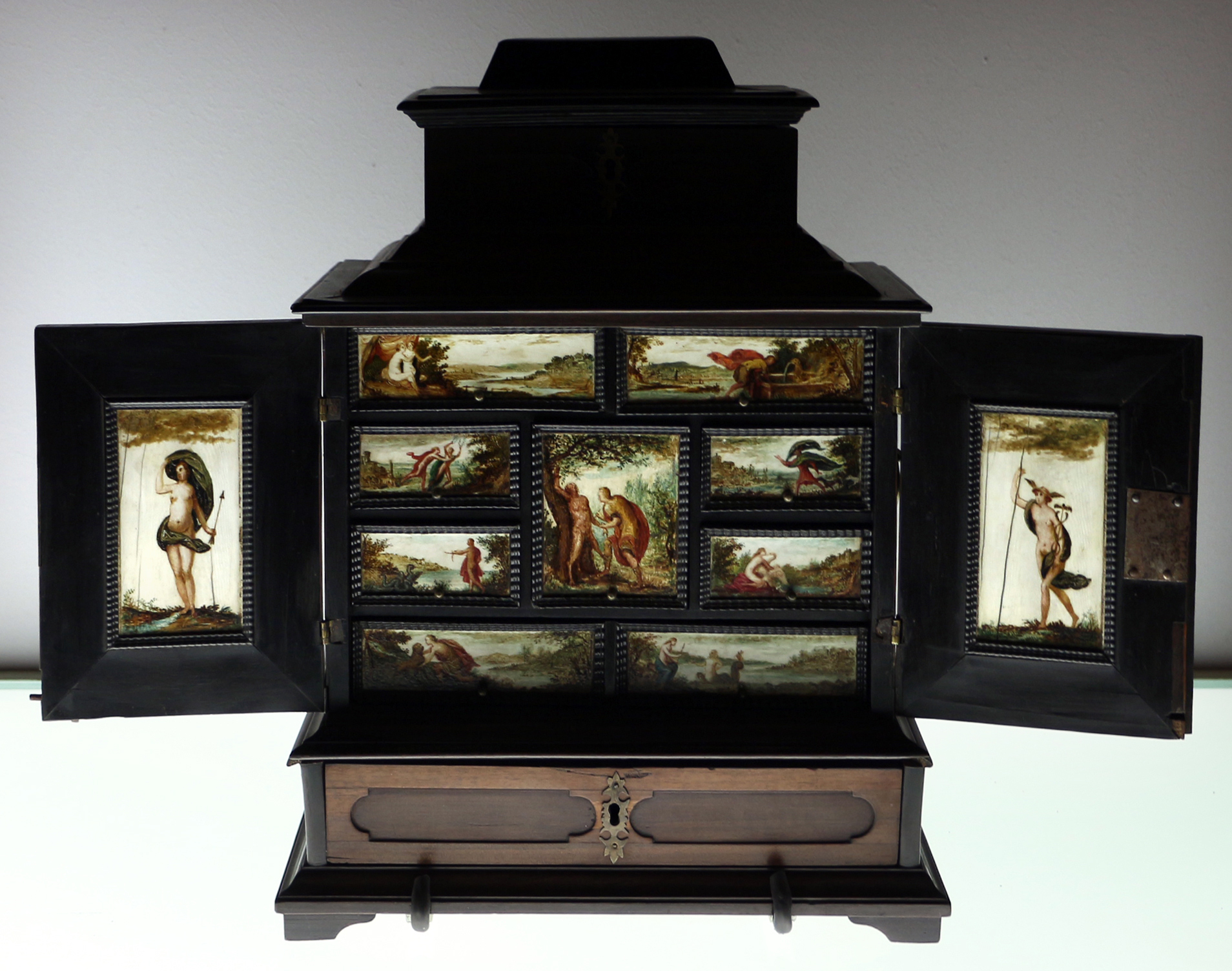 Furniture Museum (Milan)